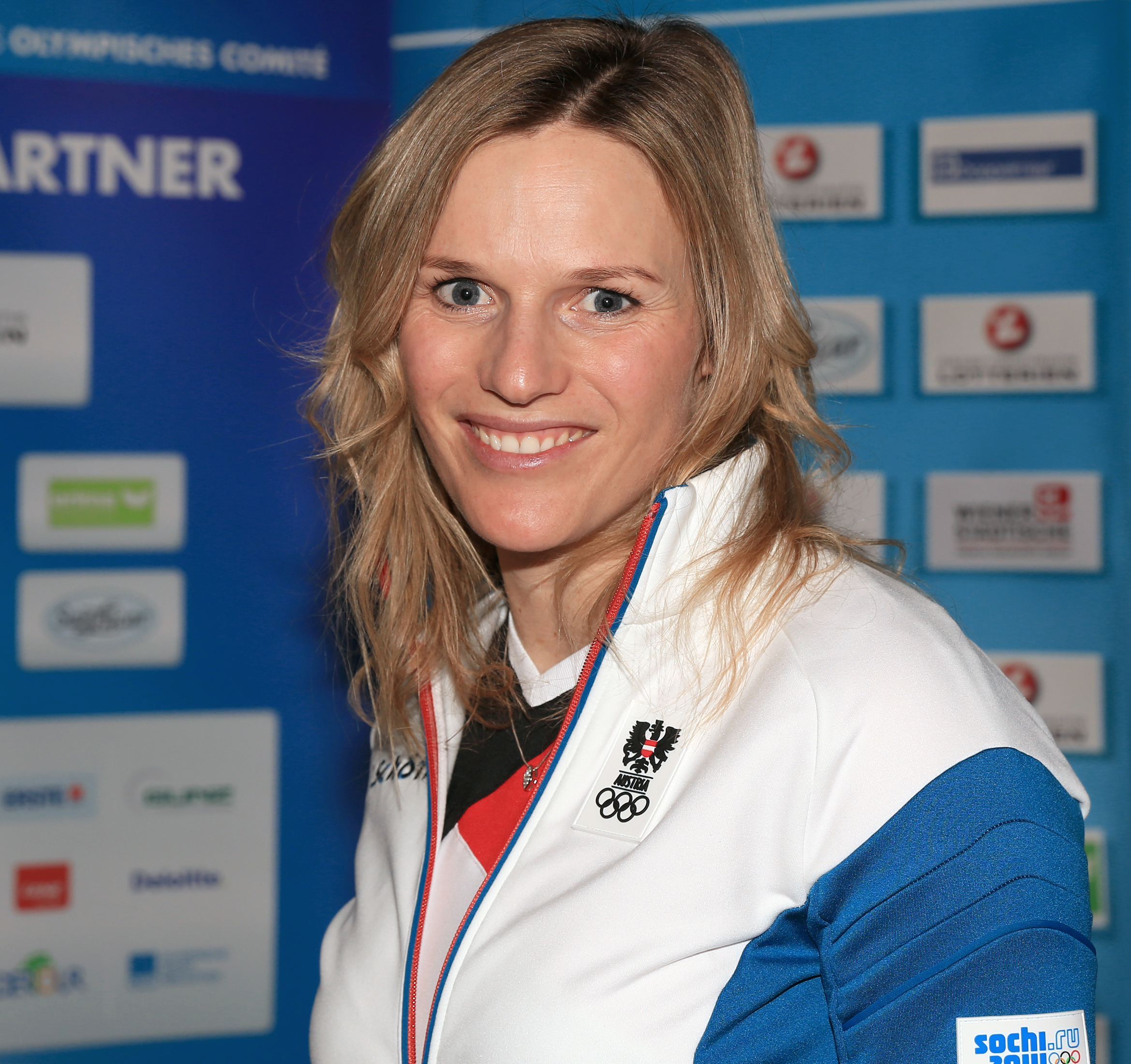 Marlies Schild at the outfitting of the Austrian team for the 2014 Winter Olympics (Hotel Marriott in Vienna, Austria.